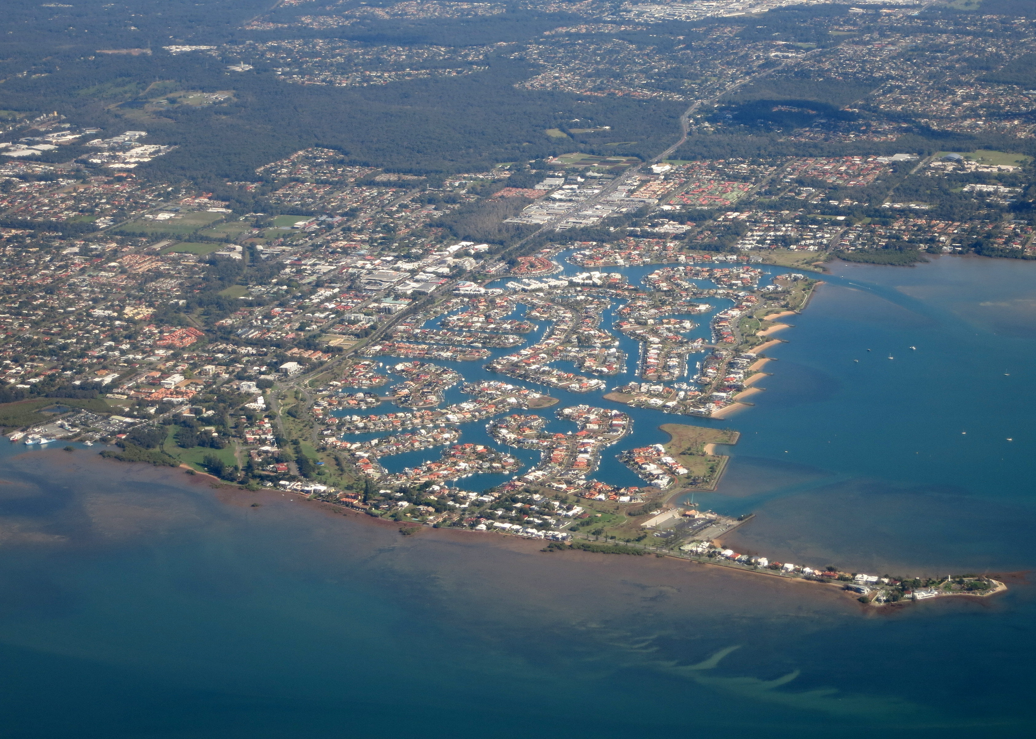 Raby Bay viewed from an aircraft in June 2015